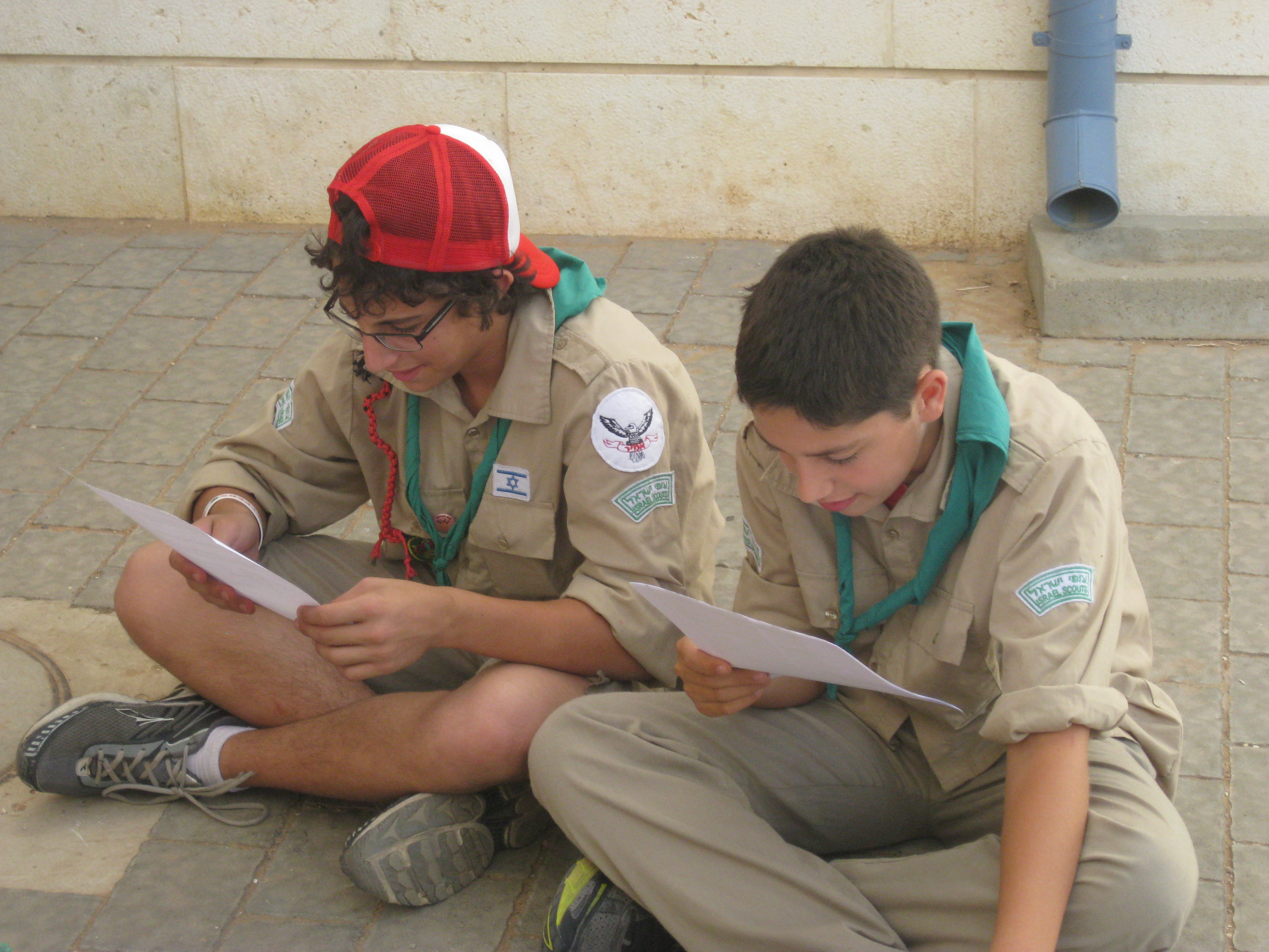 שנת פעילות 2013 חניכי קורס